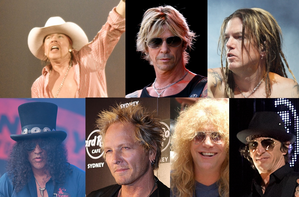 Top row from left to right: Axl Rose, Duff McKagan, Dizzy Reed. Bottom row: Slash, Matt Sorum, Steven Adler, Izzy Stradlin. A crop/montage derived from images with Creative Commons licenses on Wikimedia Commons.